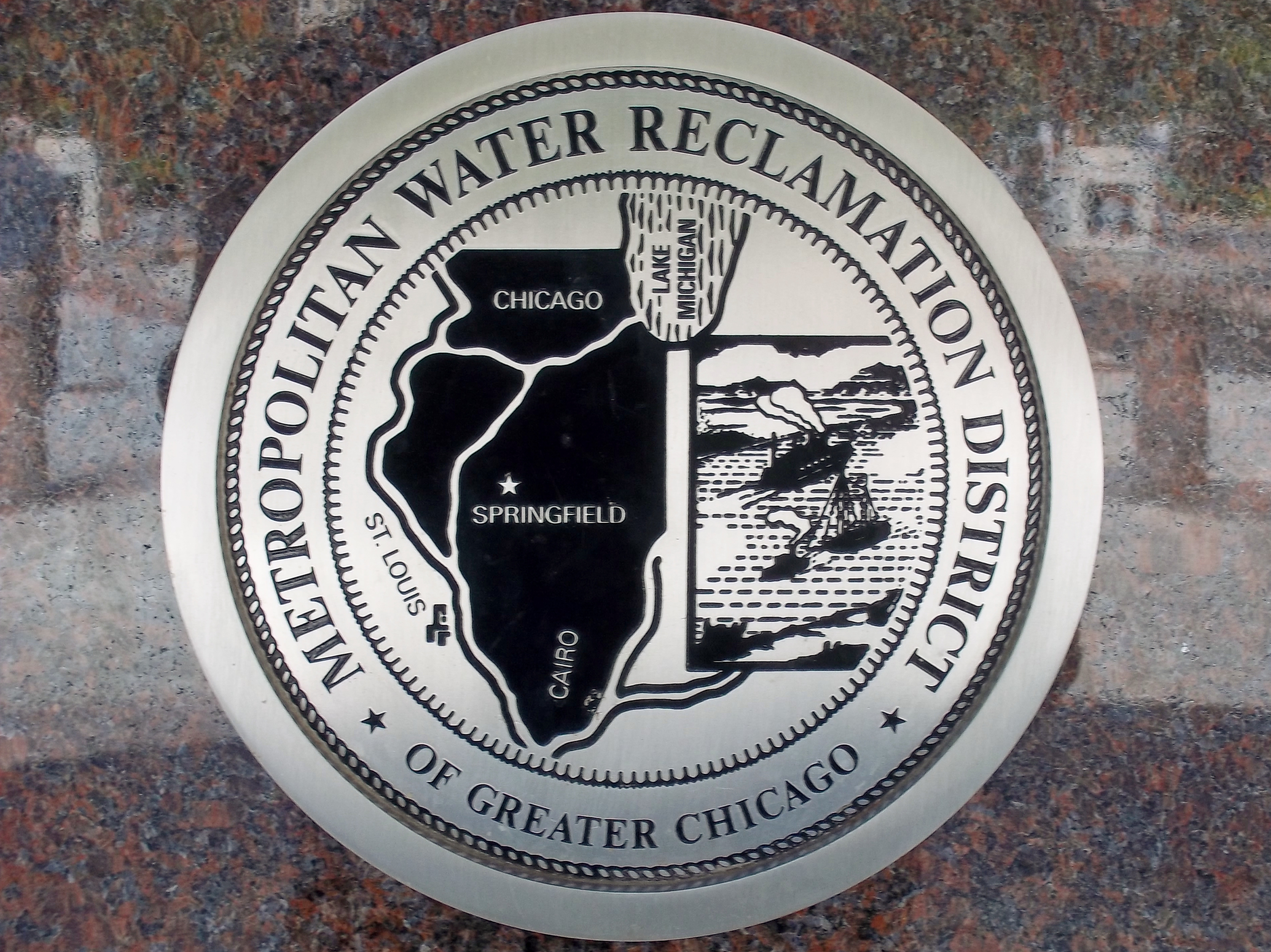 Seal of Metropolitan Water Reclamation District of Greater Chicago